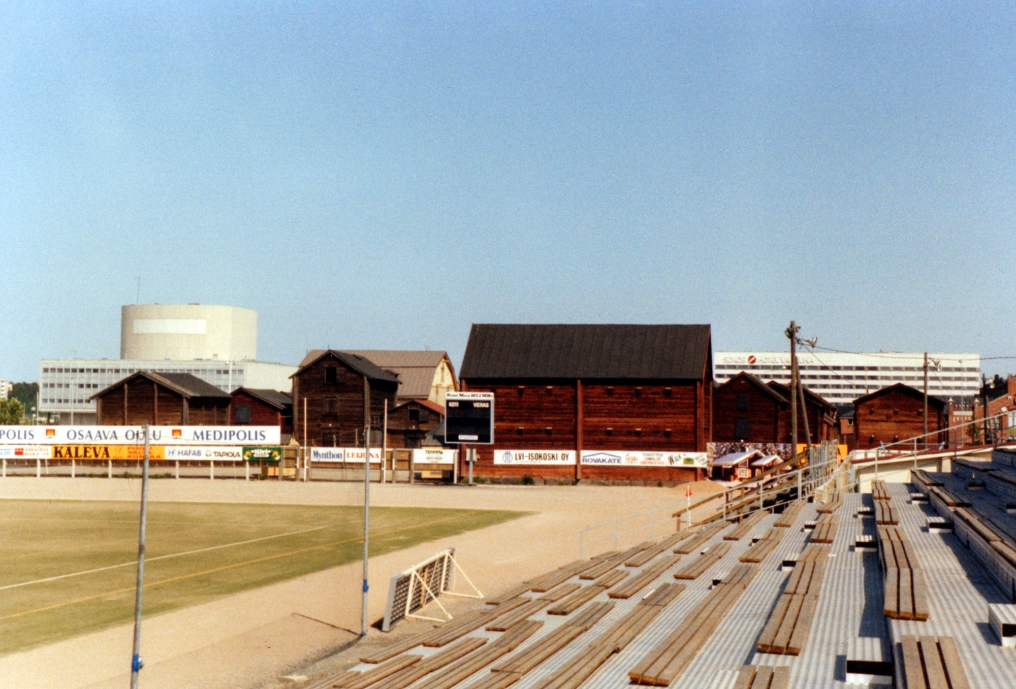 Former sports field in Oulu.